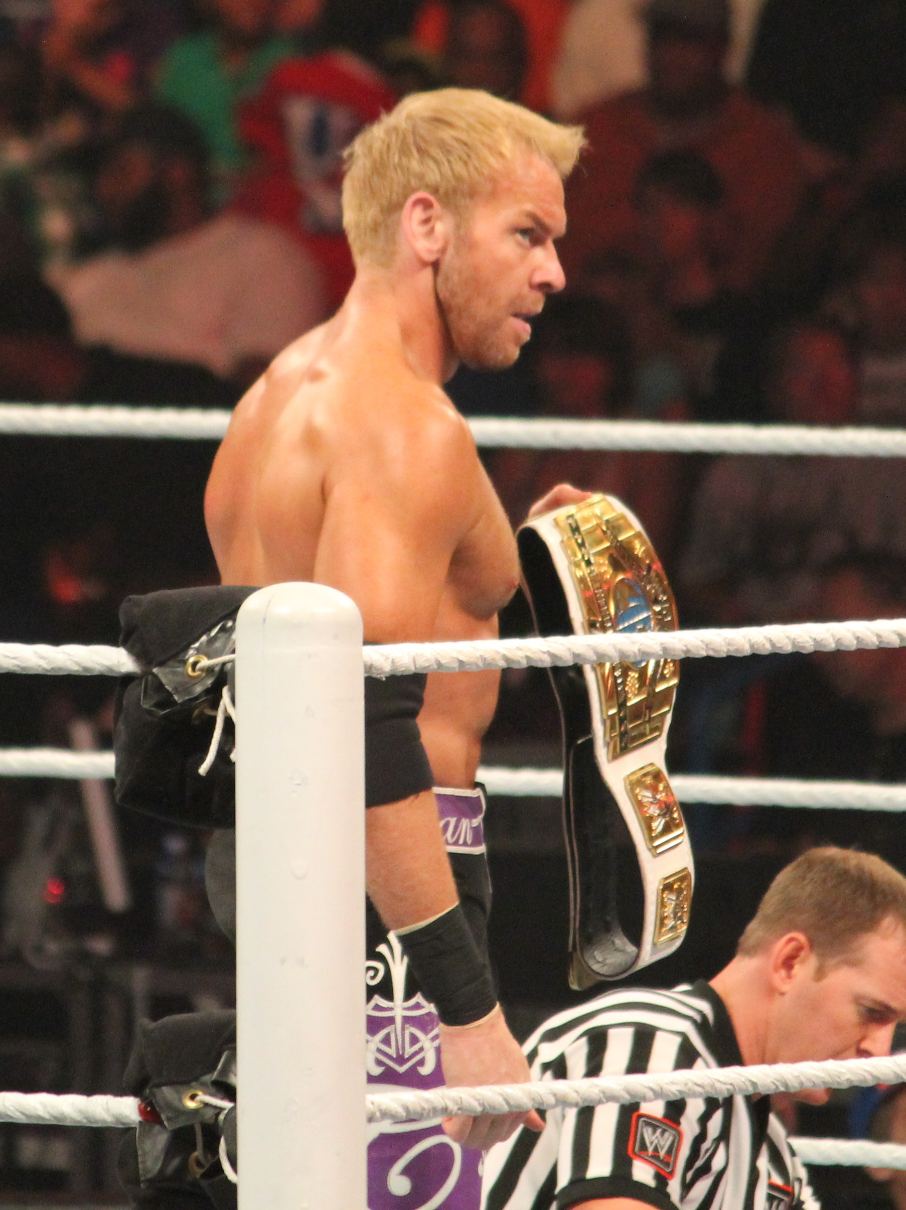 christian as IC Champion